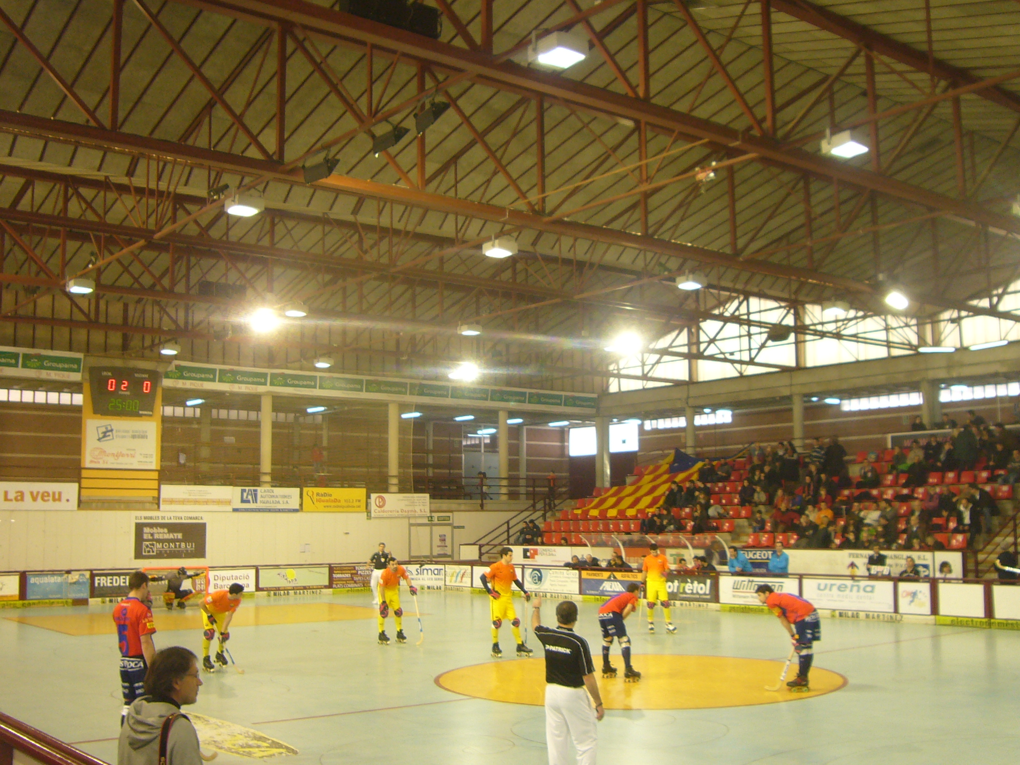 Roller hockey match Igualada - FC Barcelona, in Les Comes, Igualada, Catalonia